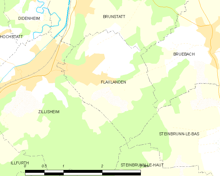 Map of French municipality